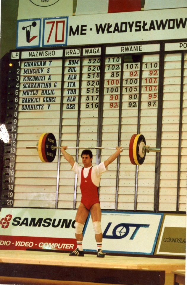 Traian Ioachim Cihărean